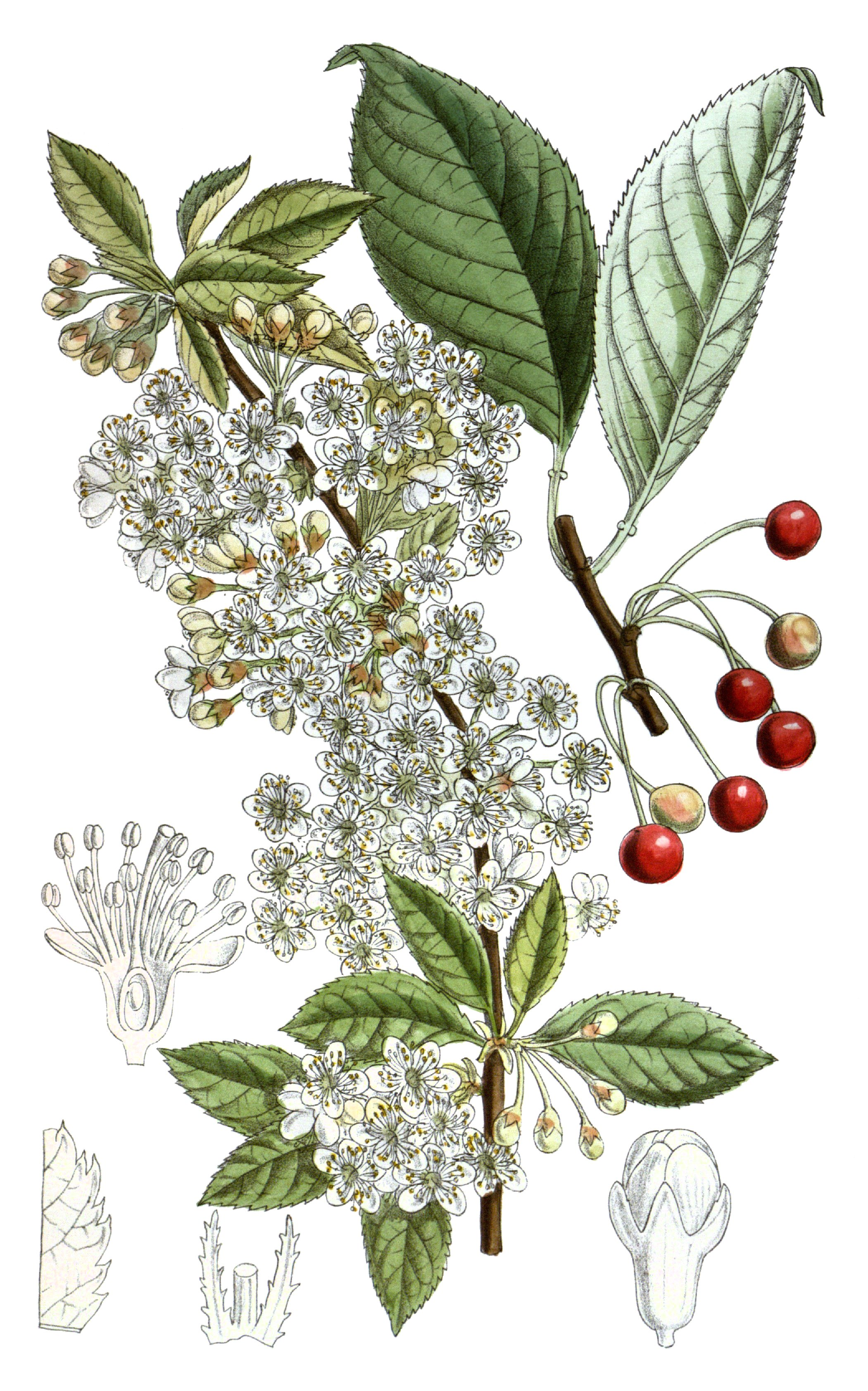 Prunus pensylvanica, Rosaceae (cleaned version of the original picture)